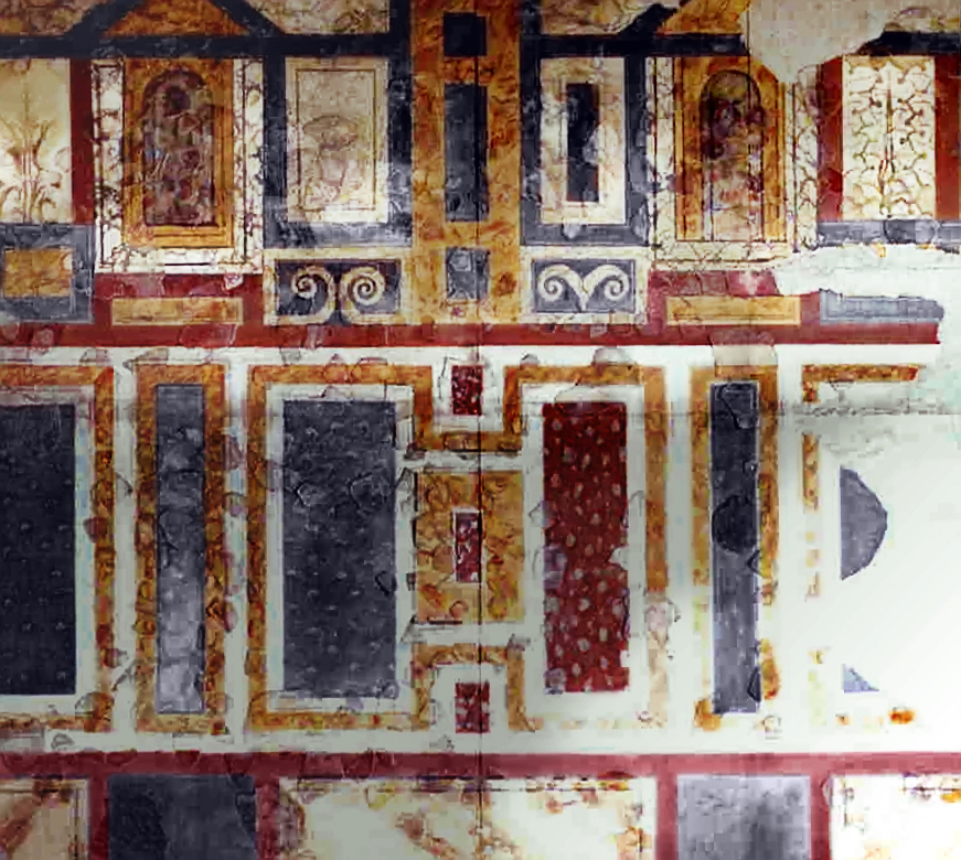 Aquincum (Budapest), Hungary: Roman Wall painting from the governors palace at Budapest, around AD 300.